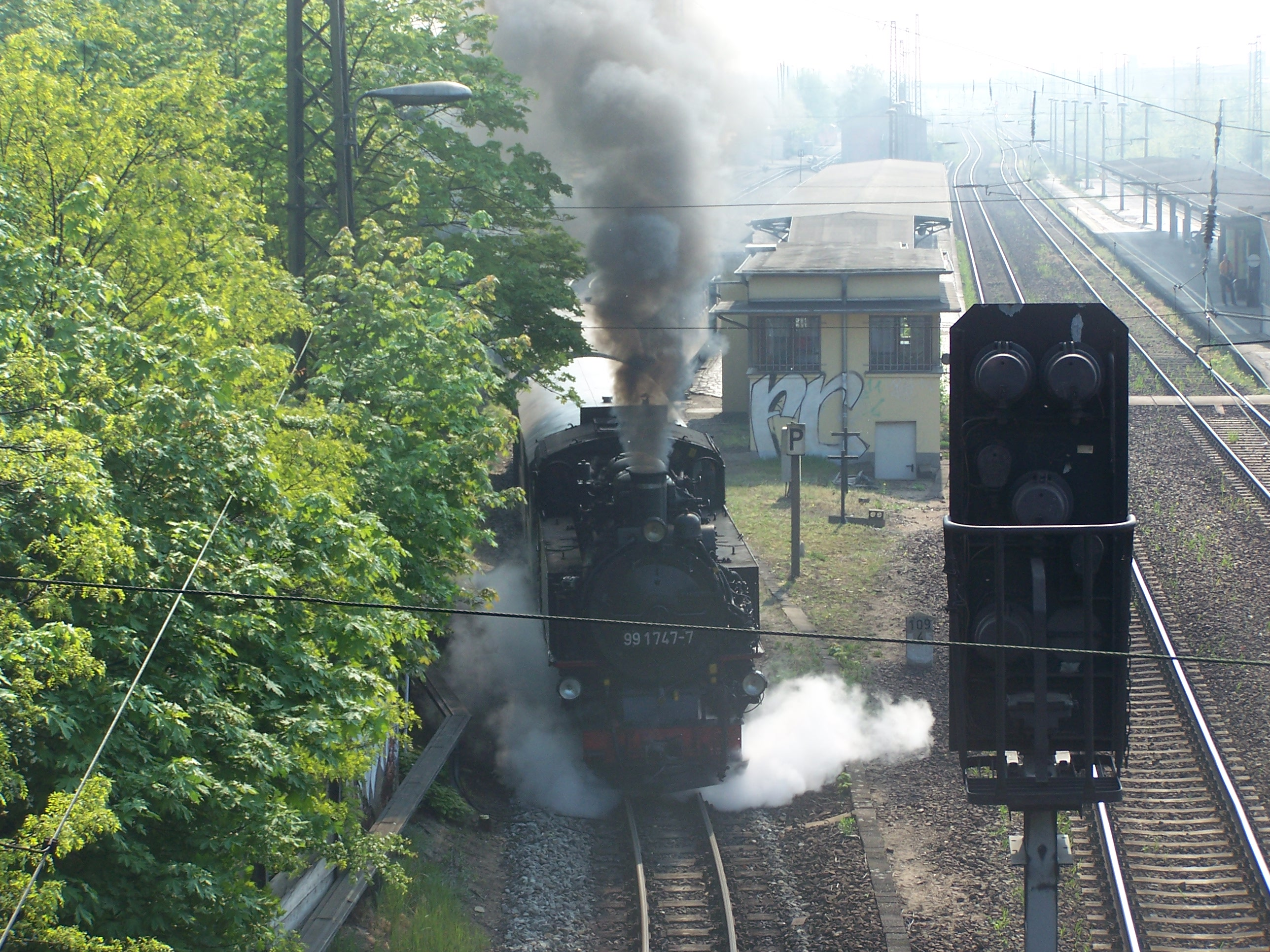 a train of the narrow-gauge Radebeul-Radeburg railway line in Germany leaving the station Radebeul-Ost, for a few hundred meters next to the "regular-size railway"